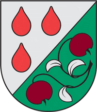 Coat of arms of the city of Olaine, Latvia.